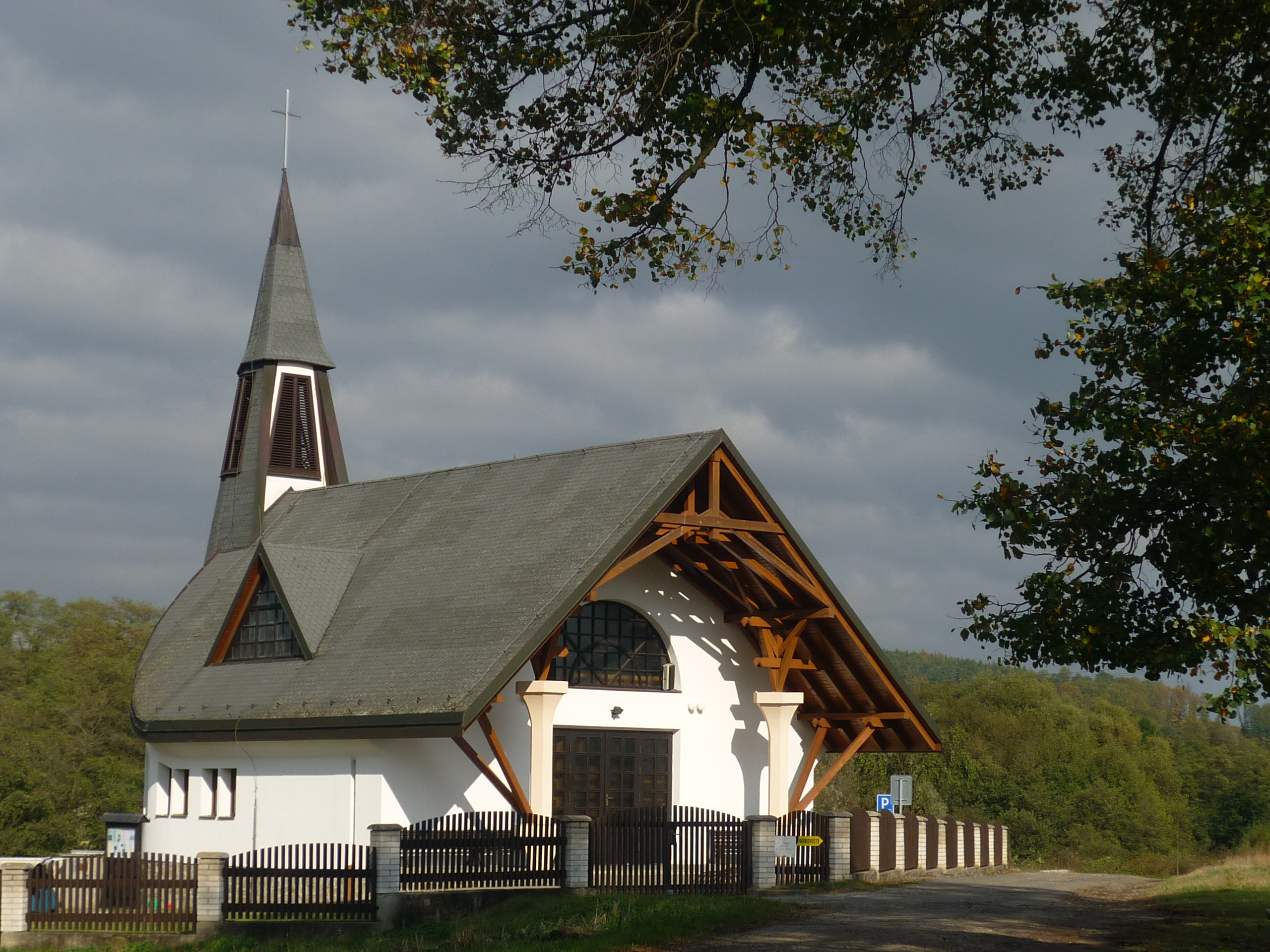 Church St. John Sarkander in Pašovice (Czech republik)